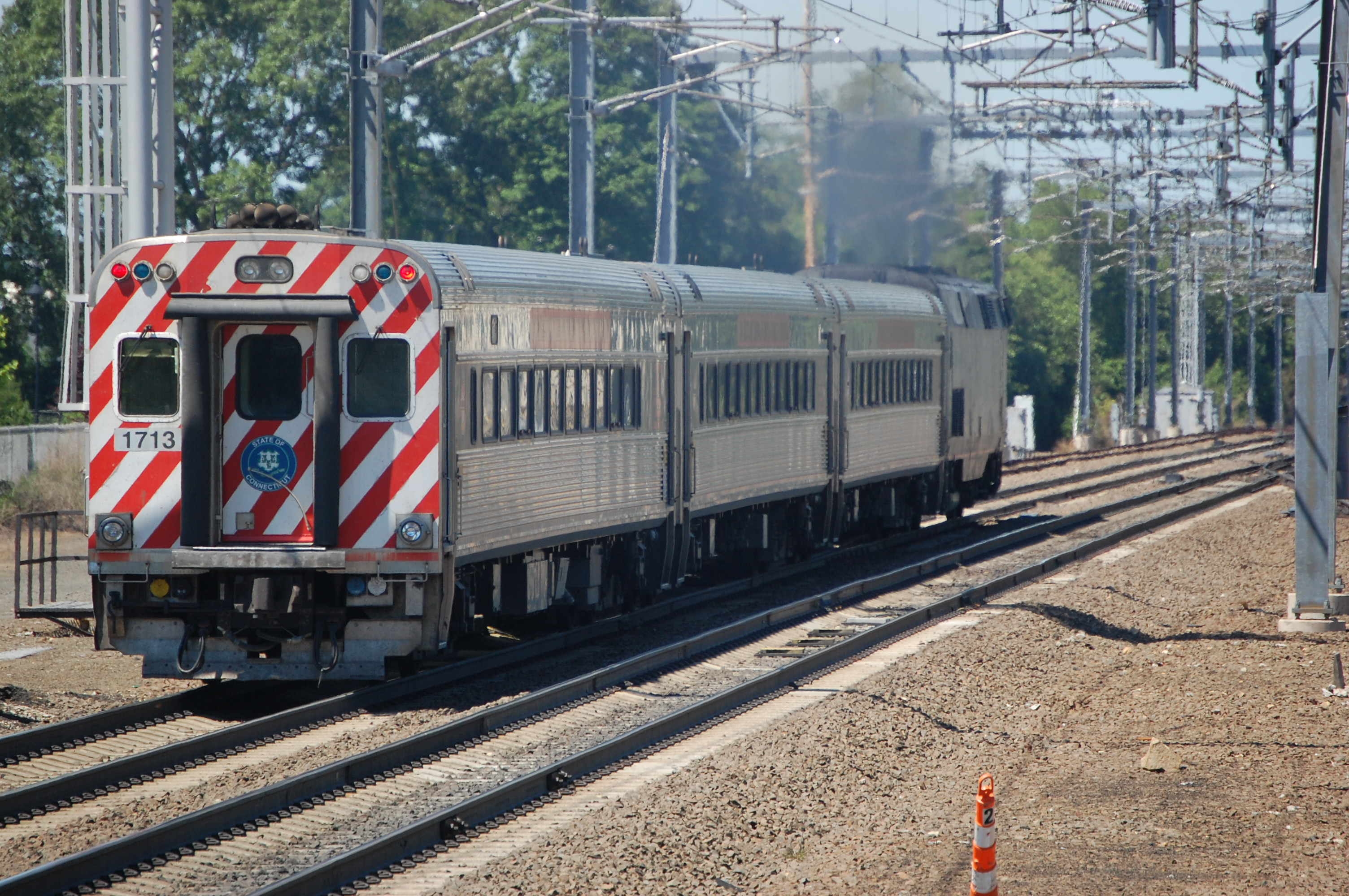 A westbound Shore Line East train departs Old Saybrook led by P40DC #843